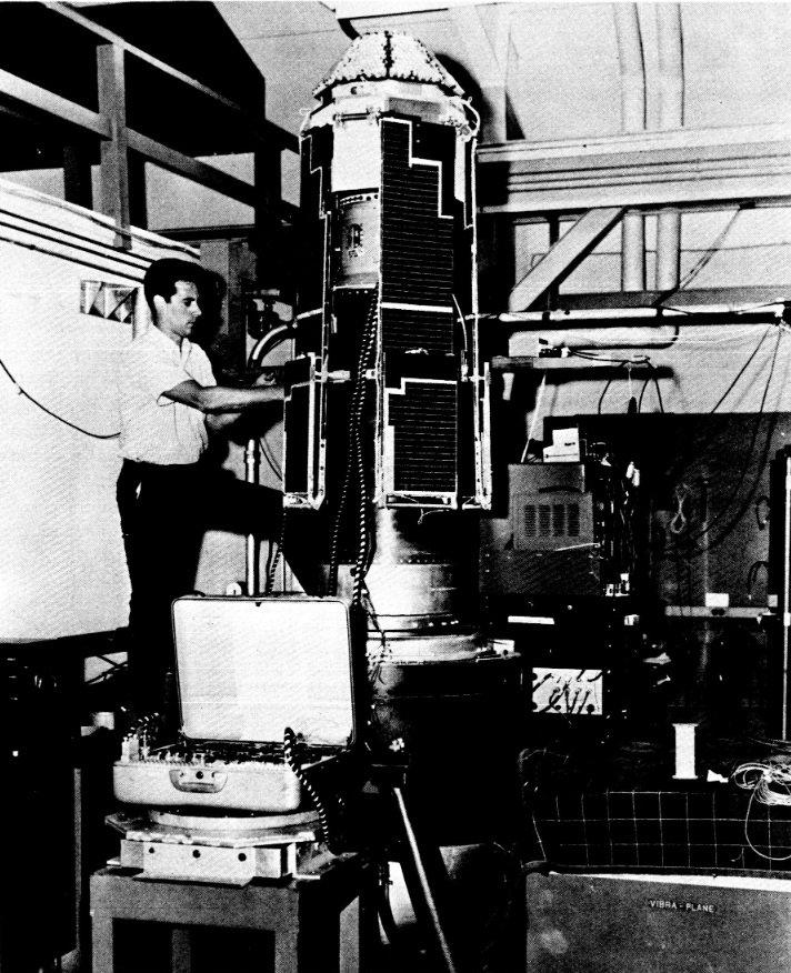 S66SN35 Mounted on Vibration Table -- this satellite eventually was named Explorer 22